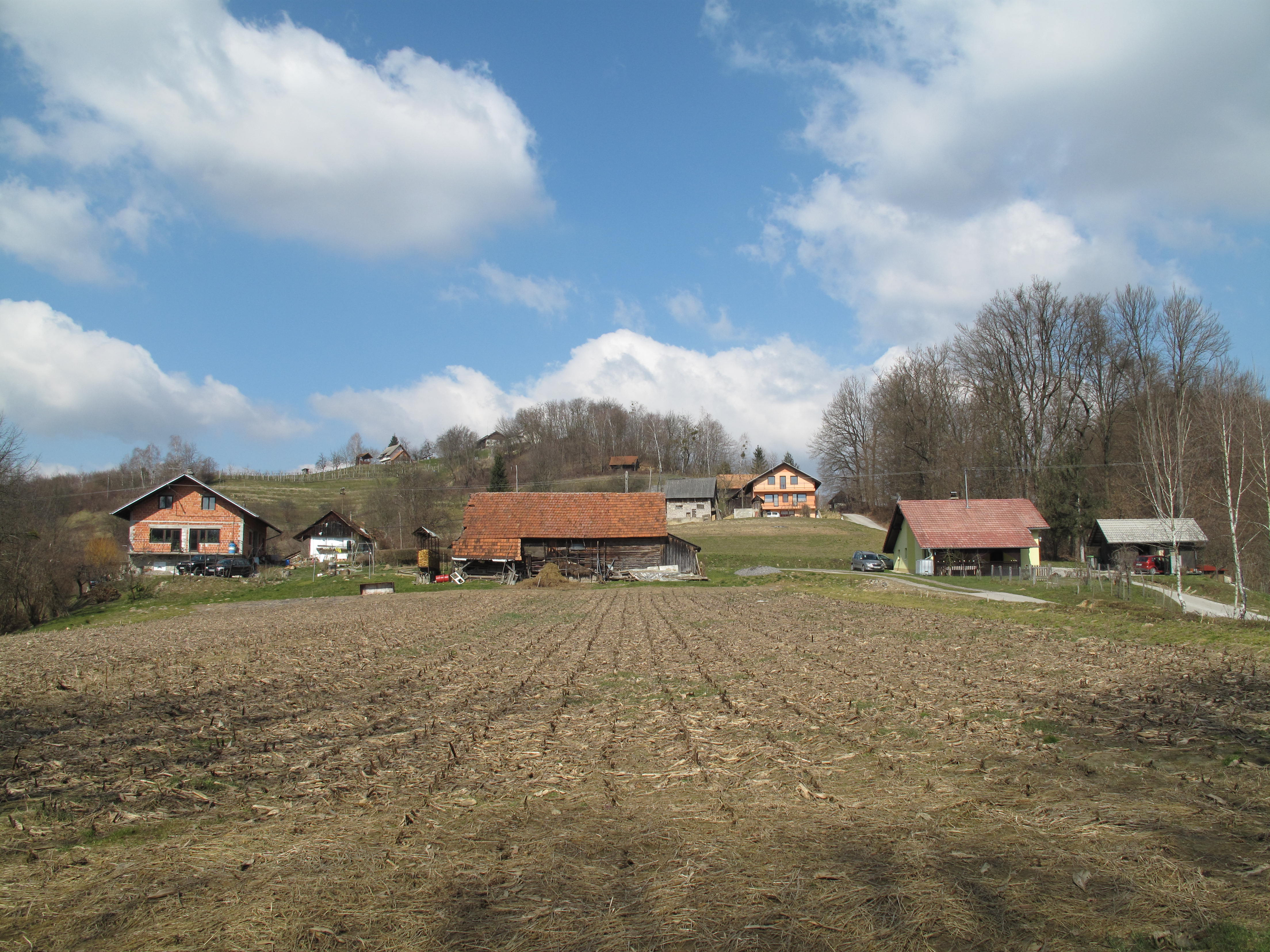 Dole, the hamlet of Piršenbreg